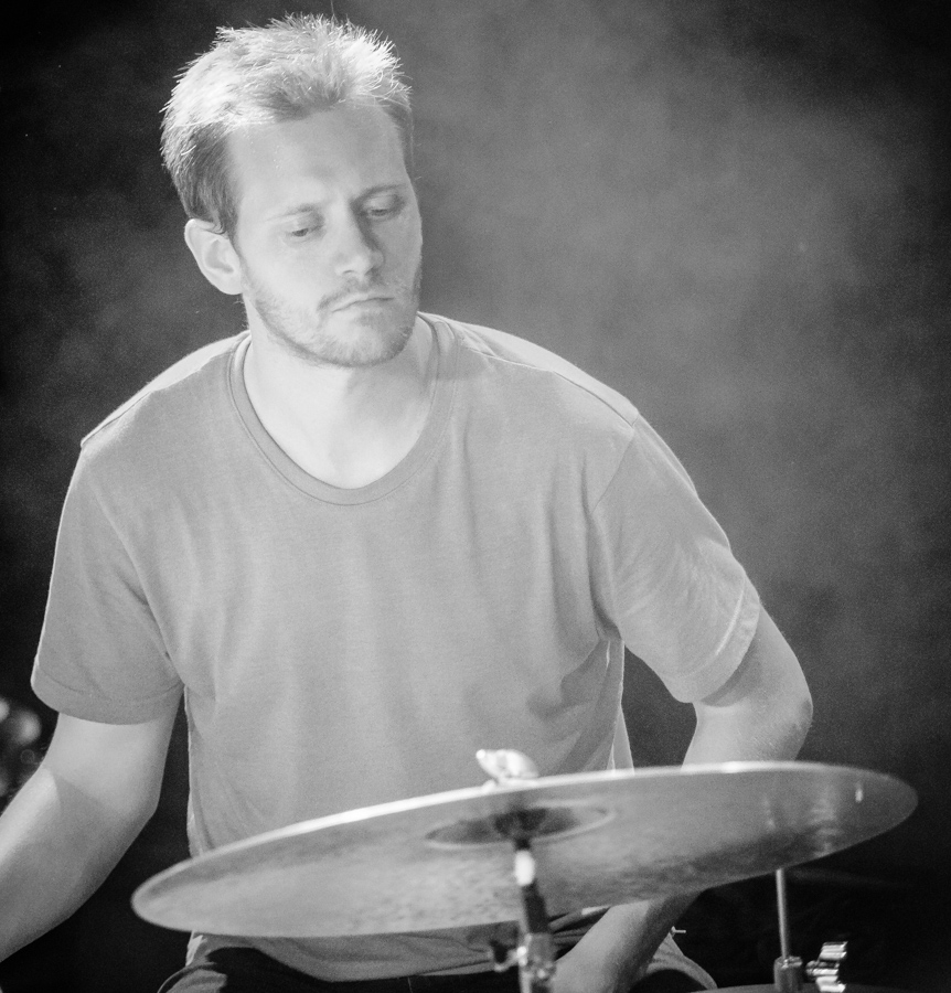 Andreas Wildhagen with Jon Rune Strøm Quintet in Energimølla. The concert was part of Kongsberg Jazzfestival and took place on 05. July 2018 in Kongsberg. Lineup:André Roligheten (saxophone)Thomas Johansson (trumpet)Jon Rune Strøm (double bass)Christian Meaas Svendsen (double bass)Andreas Wildhagen (drums)